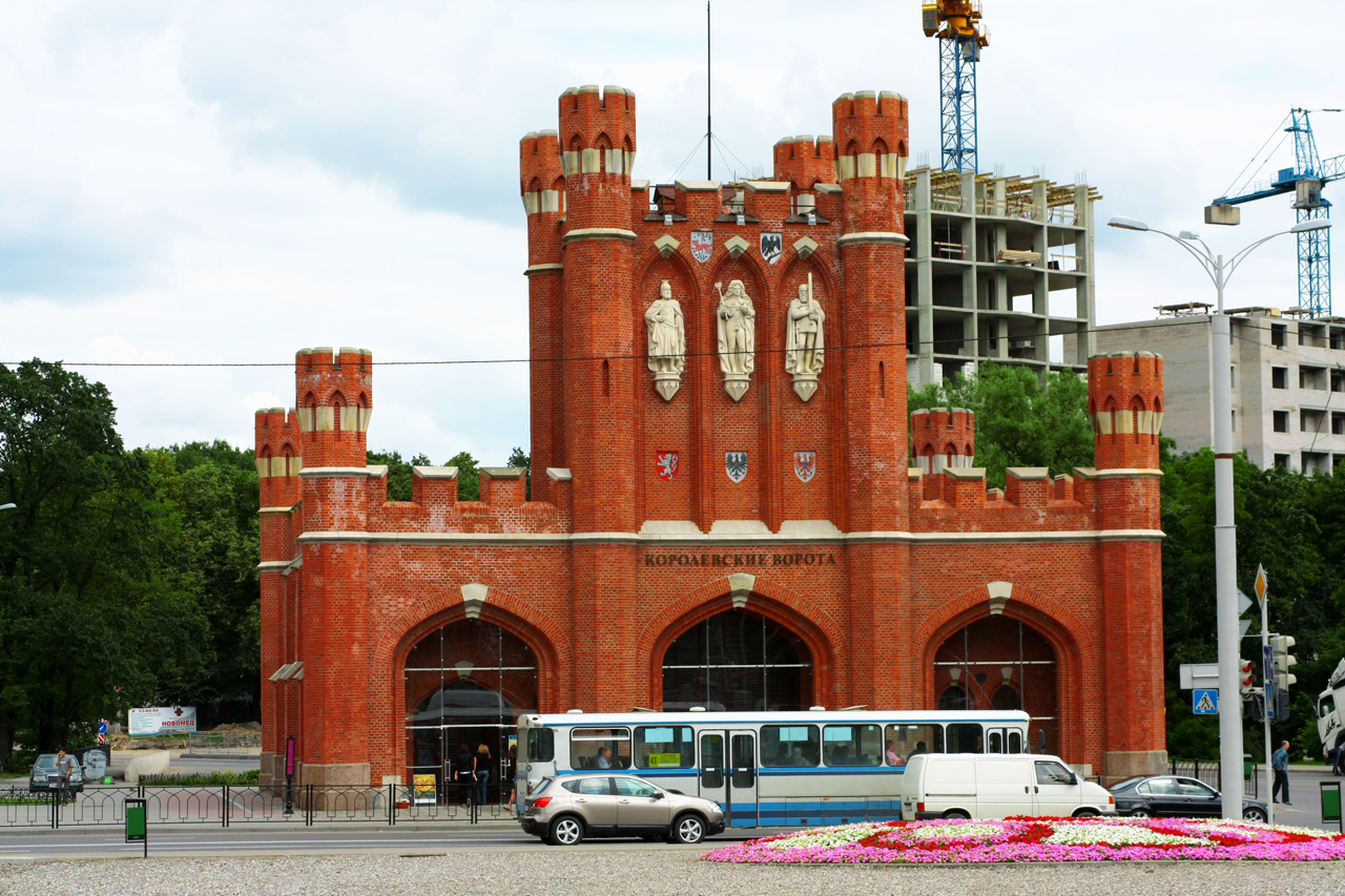 King's Gate (Kaliningrad)